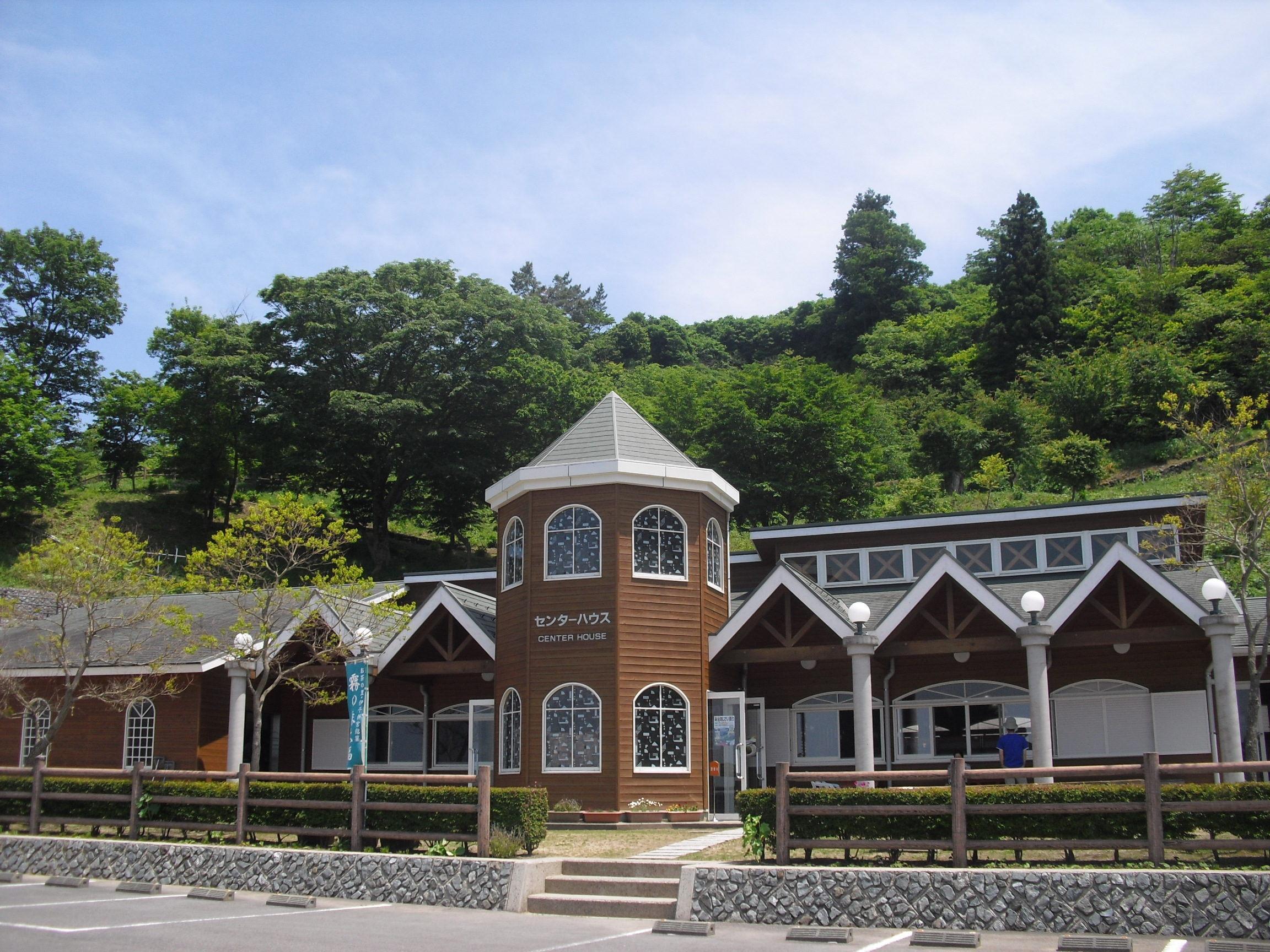 Kirinokogen